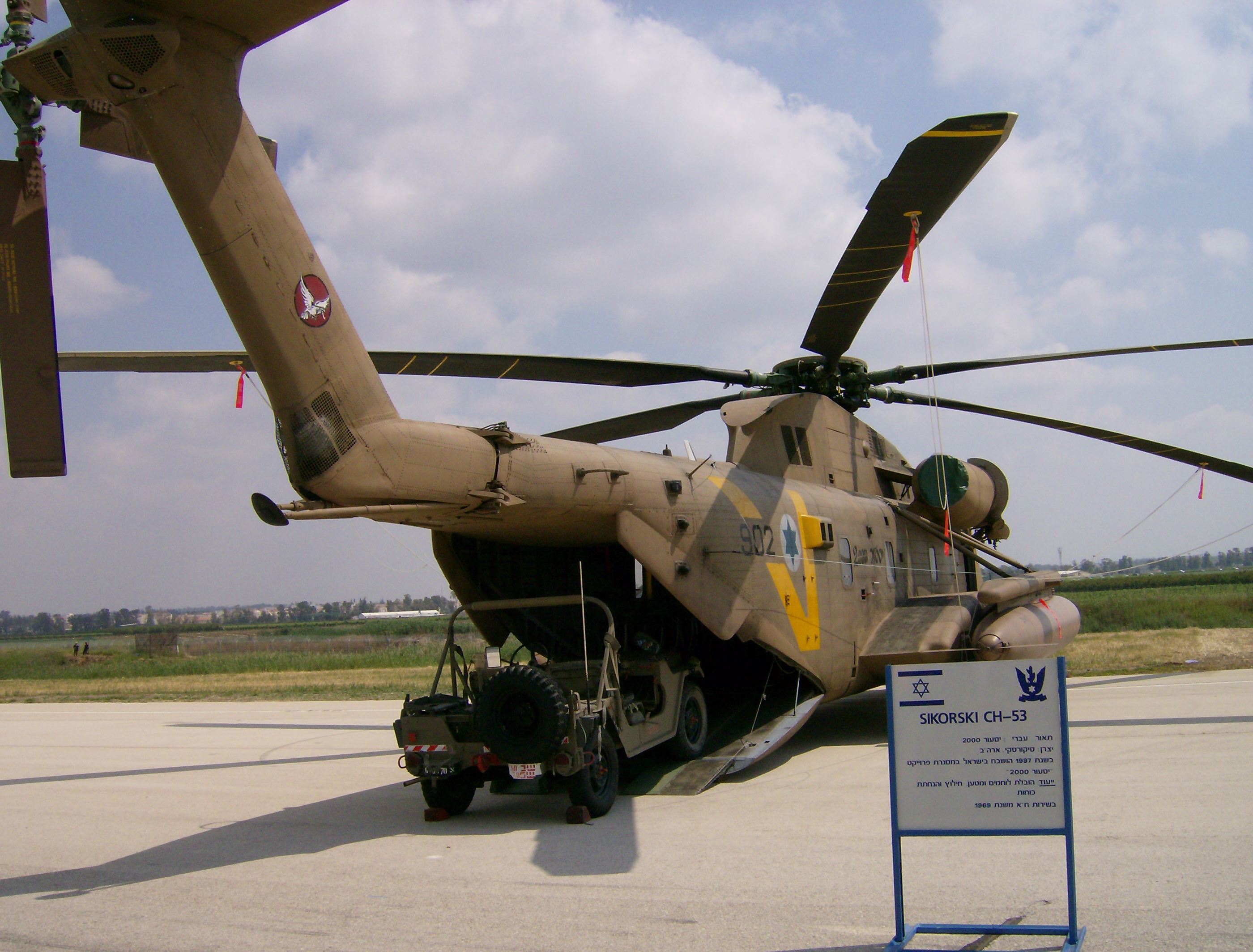 an Israeli CH-53 Uploading a Jeep